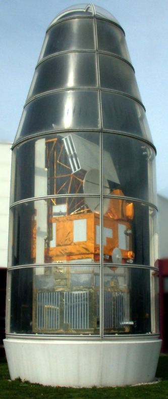 Model of European Remote Sensing Satellite (ERS) in original size, folded to fit into Ariane 4 upper stage. Located at Noordwijk Space Expo in The Netherlands